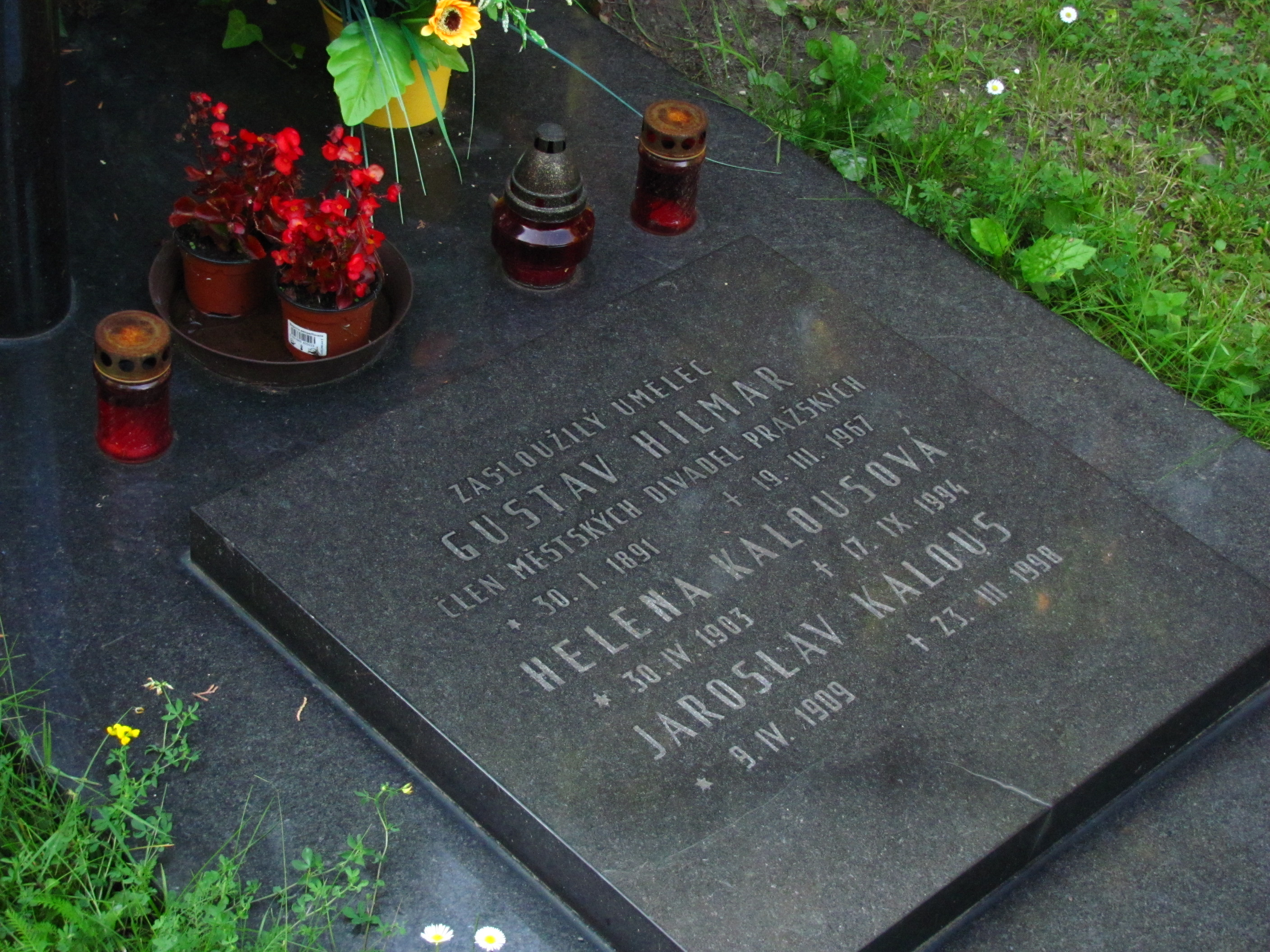 Gustav Hilmar, Czech actor, Tombstone at Vinohrady Cemetery in Prague